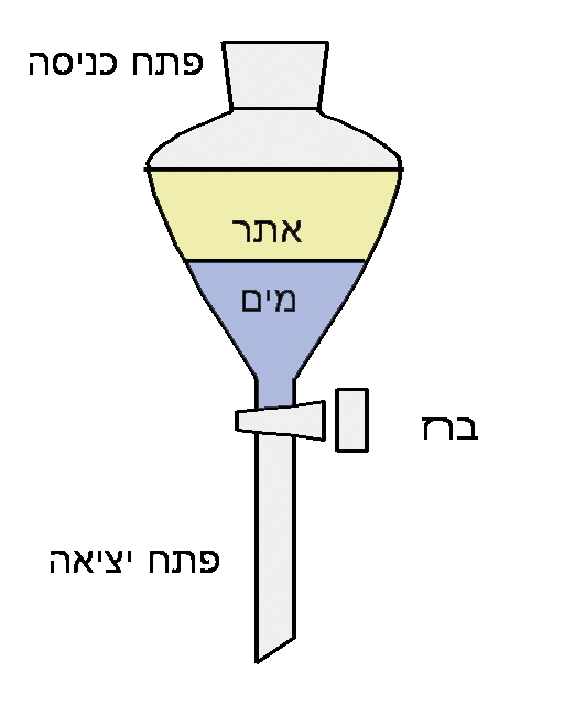 Separatory funnel